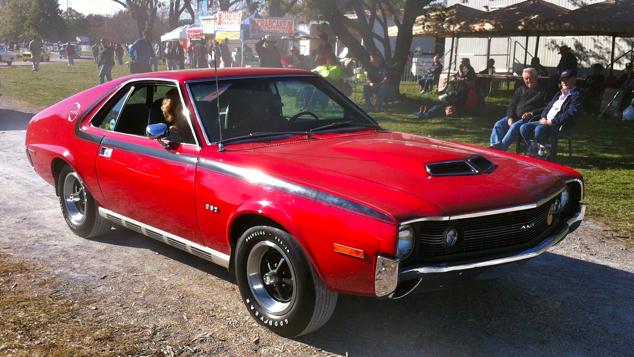 1970 AMX by American Motors Corporation (AMC) two-seat GT coupe - with the 360 cu in (5.9 L) V8 Go-Package. Finished in "Matador Red" with black "C-stripe" on body sides. Picture taken as this car was leaving the show field of the Antique Automobile Club of America (AACA) 2012 Hershey meet that is held every October in Pennsylvania.